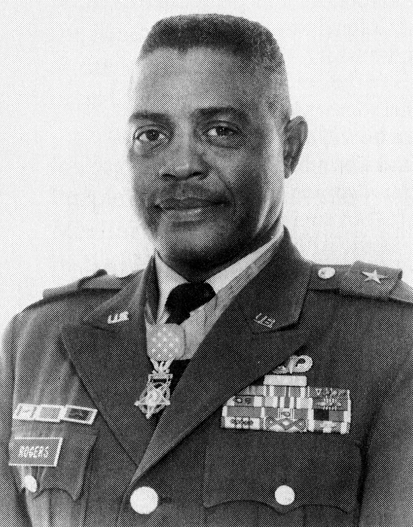 Lieutenant Colonel Charles Calvin Rogers, United States Army. Recipient of the Medal of Honor for his actions in the Vietnam War.